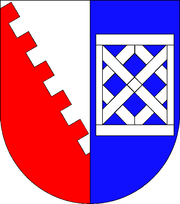 Coat of arms of the municipality Ottendorf in Schleswig-Holstein, Germany.